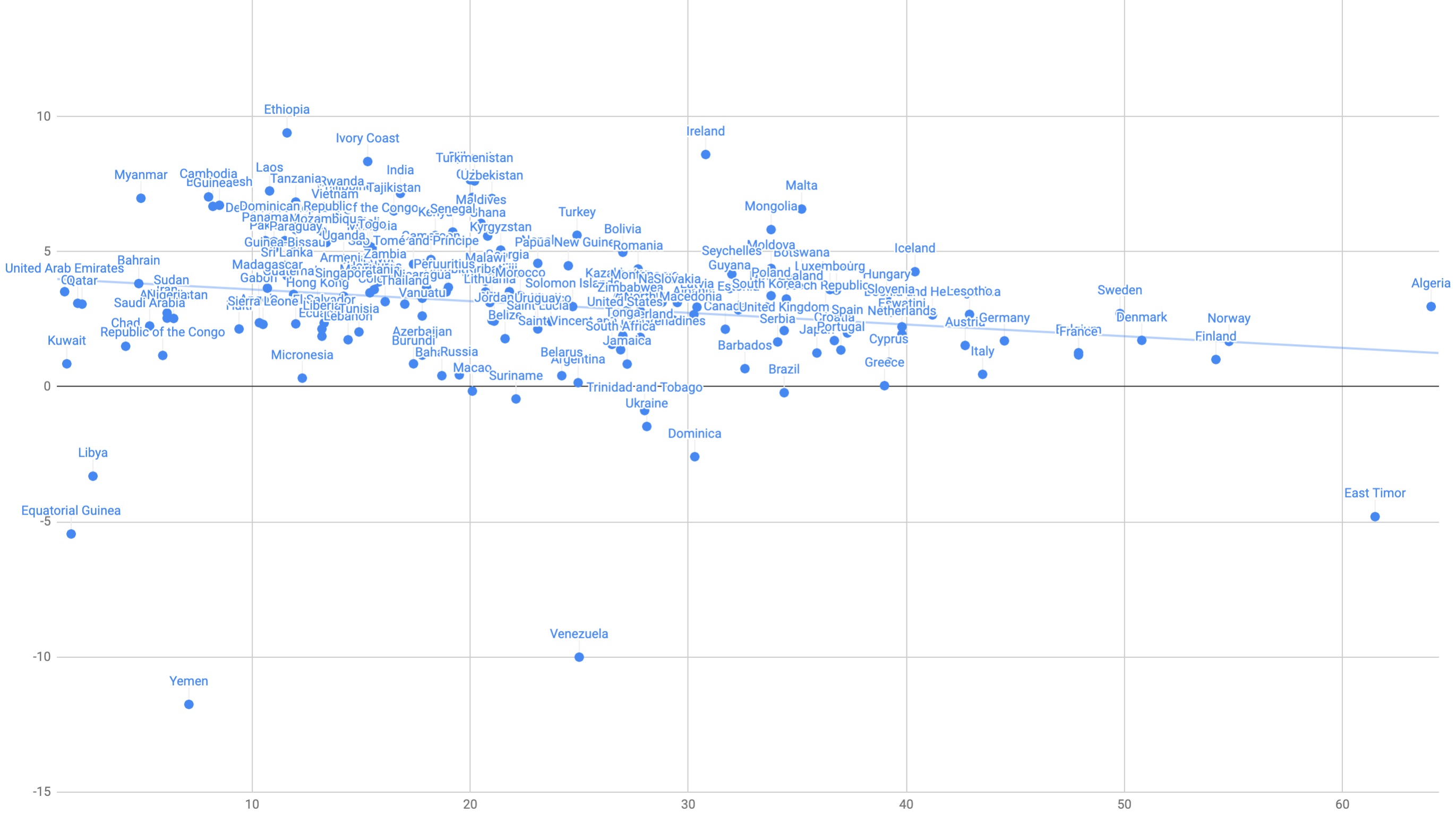 Relation between the tax revenue to GDP ratio and the economic growth